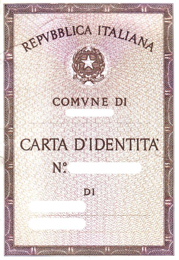 Italian identity card